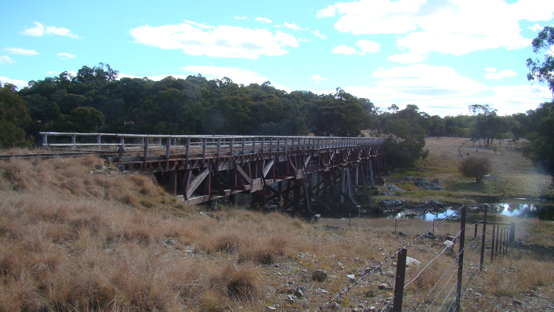 Yarraford Rail Bridge over Beardy Waters. A timber deck bridge built 1886 on Main North railway line, New South Wales.